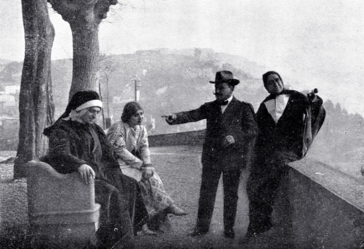 Dante e Beatrice - prod "Ambrosio" 1912 - foto set con il regista Mario Caserini